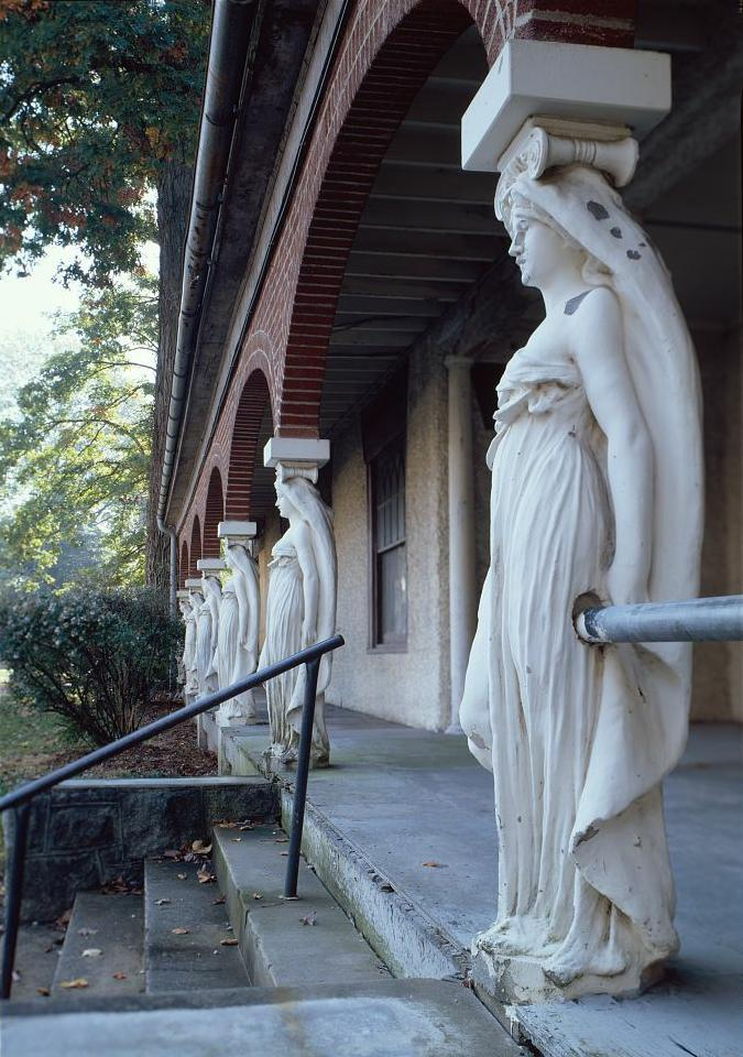 National Park Seminary, Aloha House, North of Linden Lane near corner of Beech Drive, Silver Spring, Montgomery County, MD. Detail view in caryatid breezeway to show entrance steps; lion statues once flanked these steps. 39°0′40.4″N 77°3′24.6″W / 39.011222°N 77.056833°W